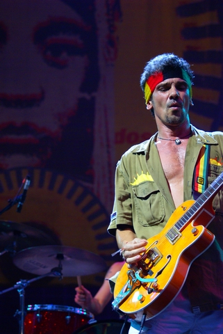 Manu Chao in Brooklyn, Prospect Park le 27 et 28 Juin 2007